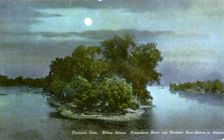 Postcard: Willows Island, Portland, Connecticut, postmarked 1910 Willows Island, also called Wilcox Island, is located between Cromwell and the Arrigoni Bridge.[1]